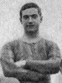 Picture of Thomas Shanks taken in August 1905.